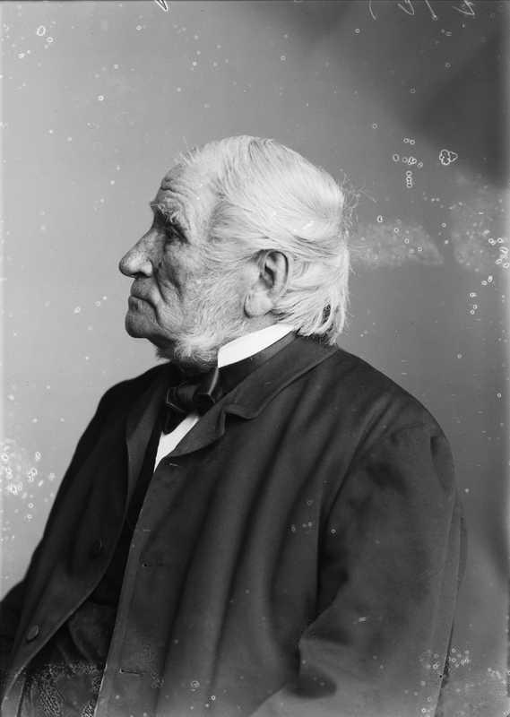 Timber merchant and land owner Christopher Henrik Holfeldt Tostrup